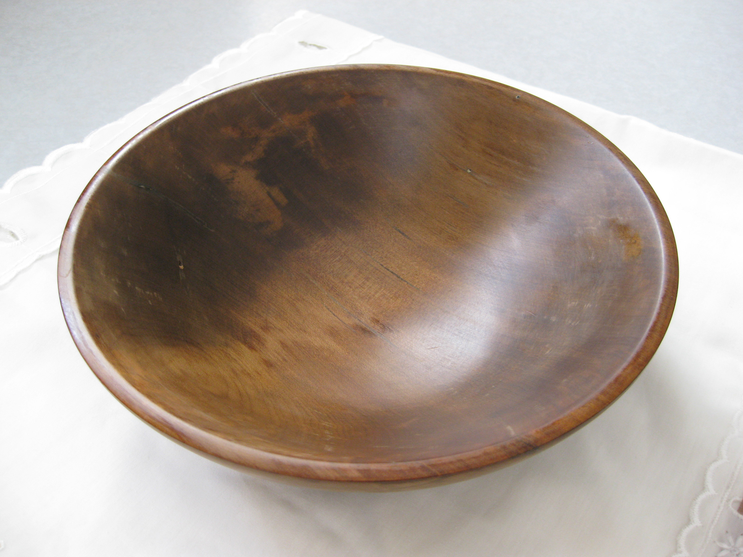 Wooden bowl made of swamp kauri, bought from Kauri Museum, New Zealand.